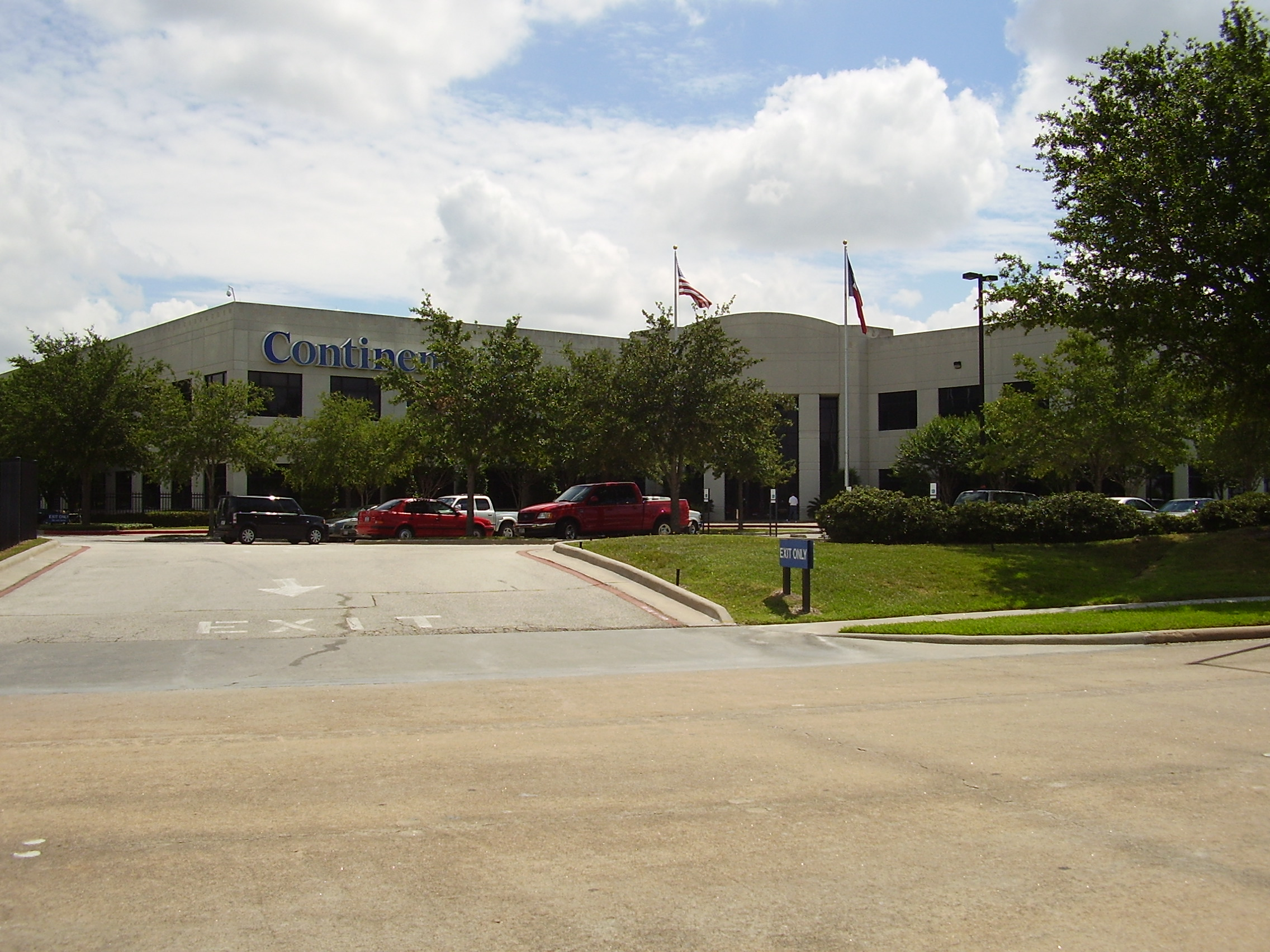 Continental Airlines North Houston Center